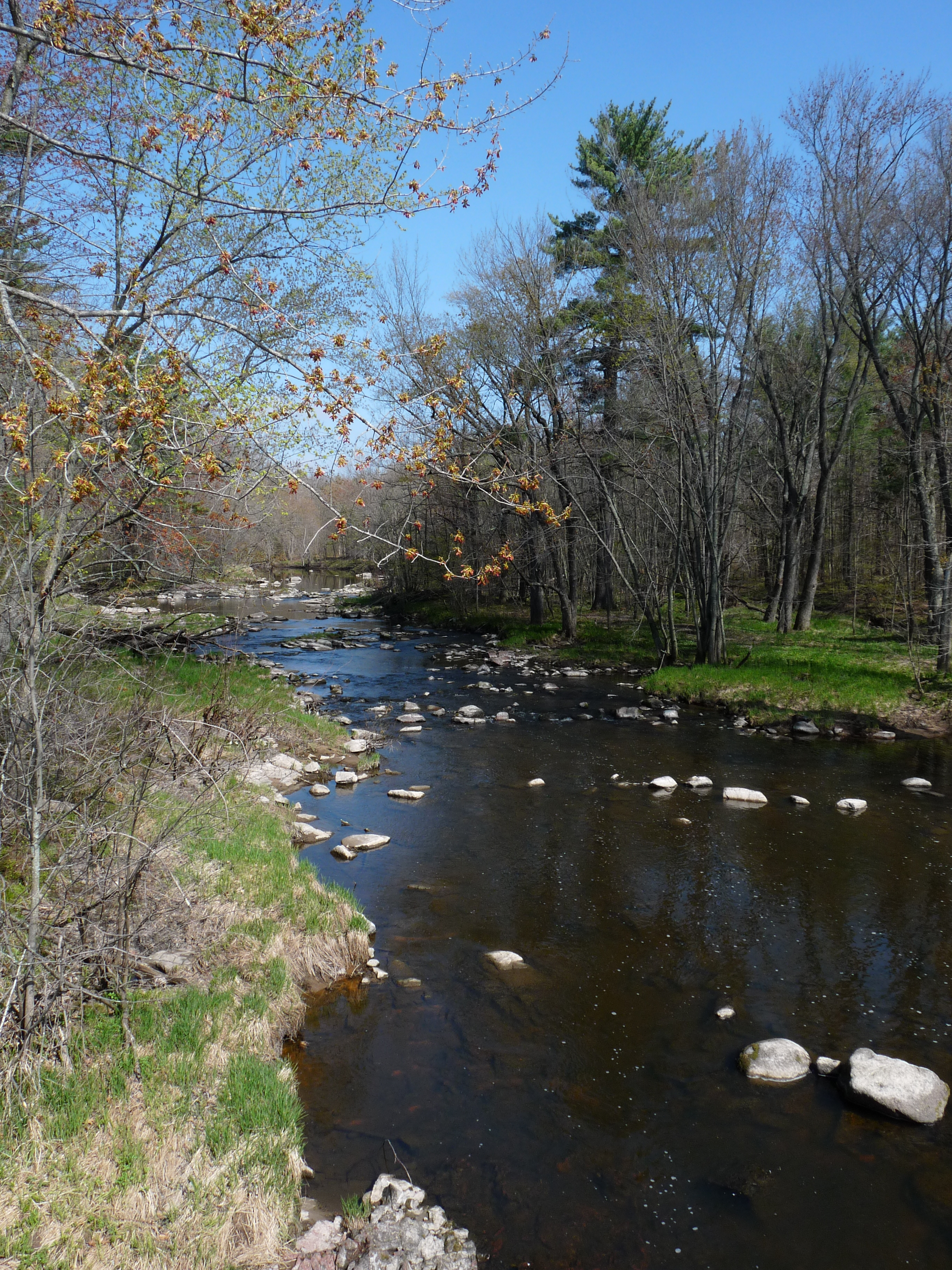 The Yellow River which flows into the Wisconsin is one of four Yellow Rivers in the state. The scene here is at County N in southwest Wood County in April after the spring flood.